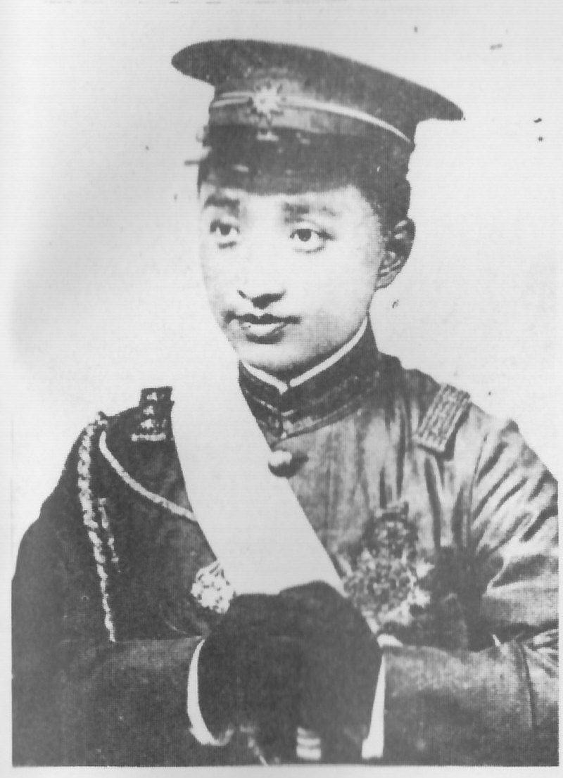 Zhang Peijue (1876 - 1915)